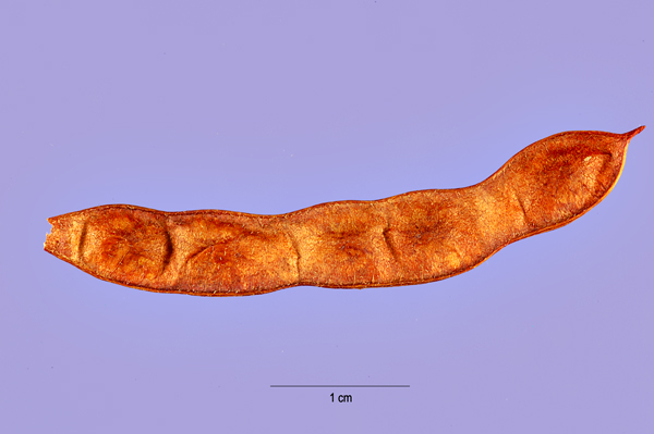 Acacia angustissima fruit collected by C. H. Muller from Jimenez, Mexico